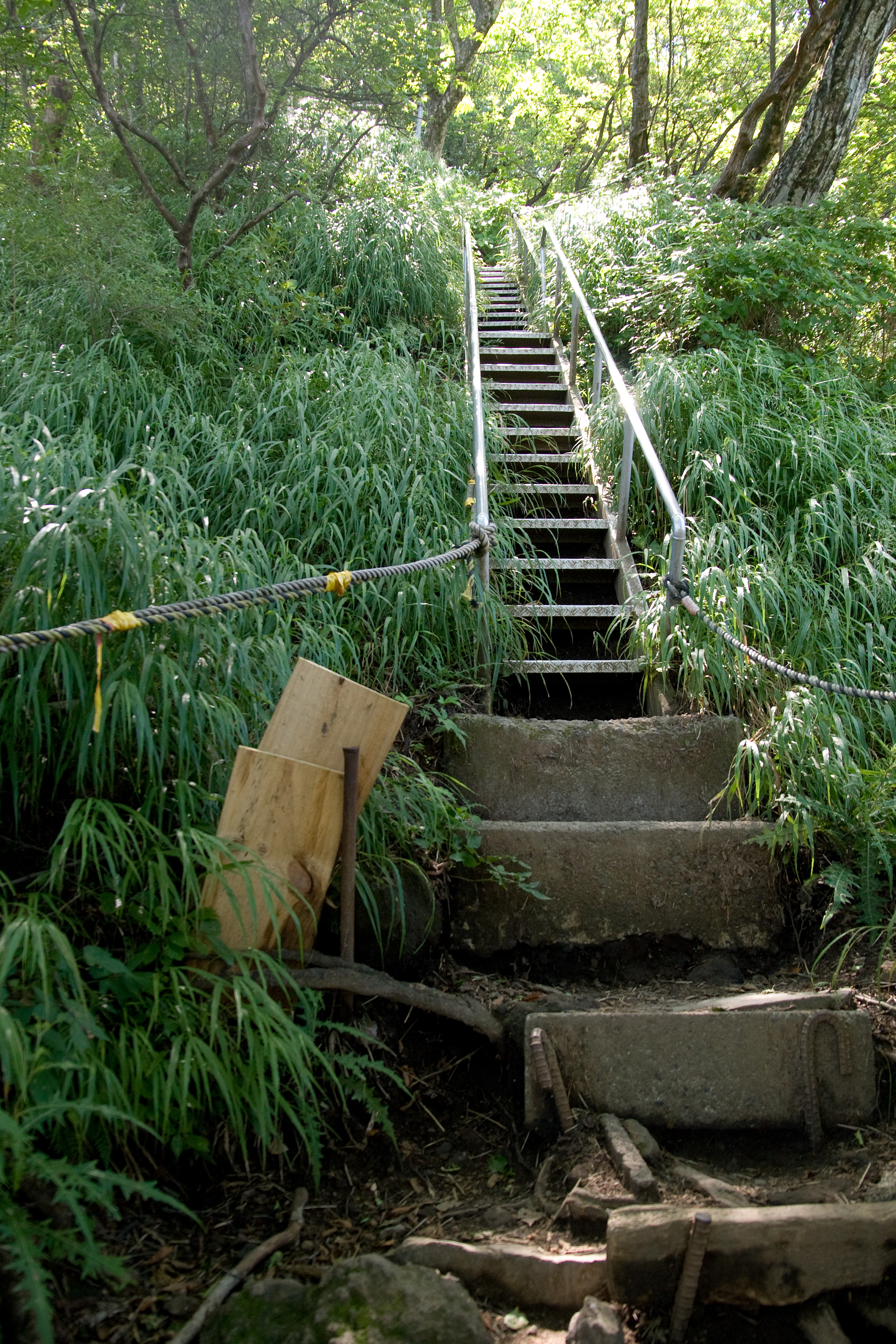 Mountain climbing trail of Mount Kintoki (This trail is also specified for Kanagawa prefectural route-731), Minamiashigara, Kanagawa, Japan.